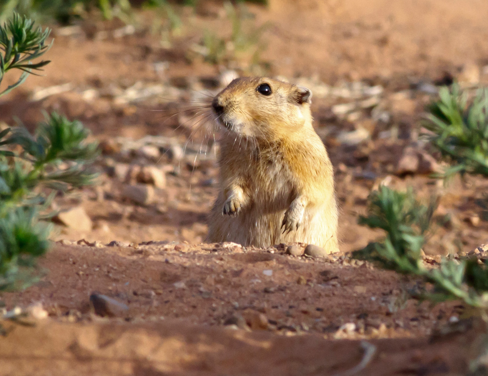 Fat-sand-rat (Psammomys obesus), Morocco